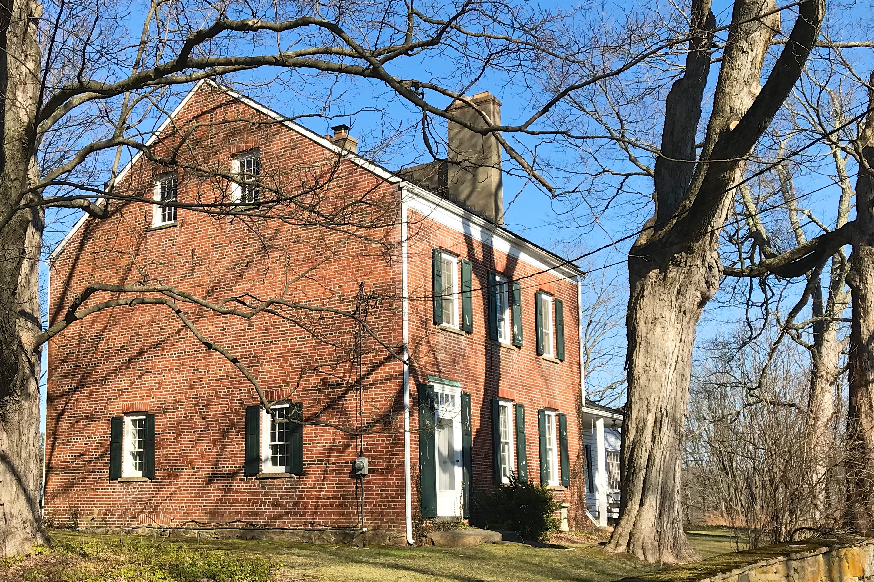 The John Smith House in Washington Valley, New Jersey. The year 1812 can be seen in the brickwork on the west gable.